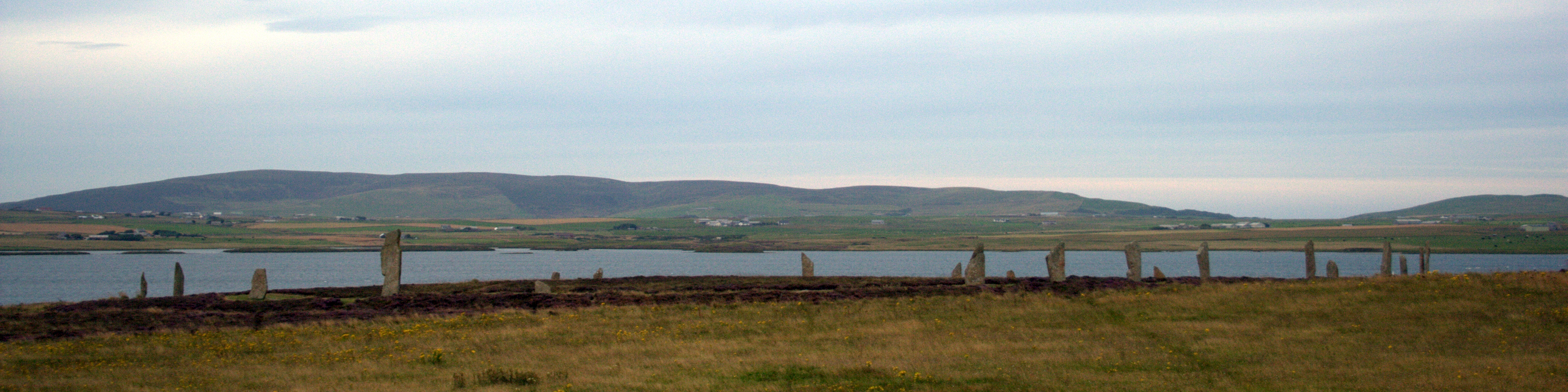 Neolithic stone ring and henge. Mainland, Orkney, Scotland